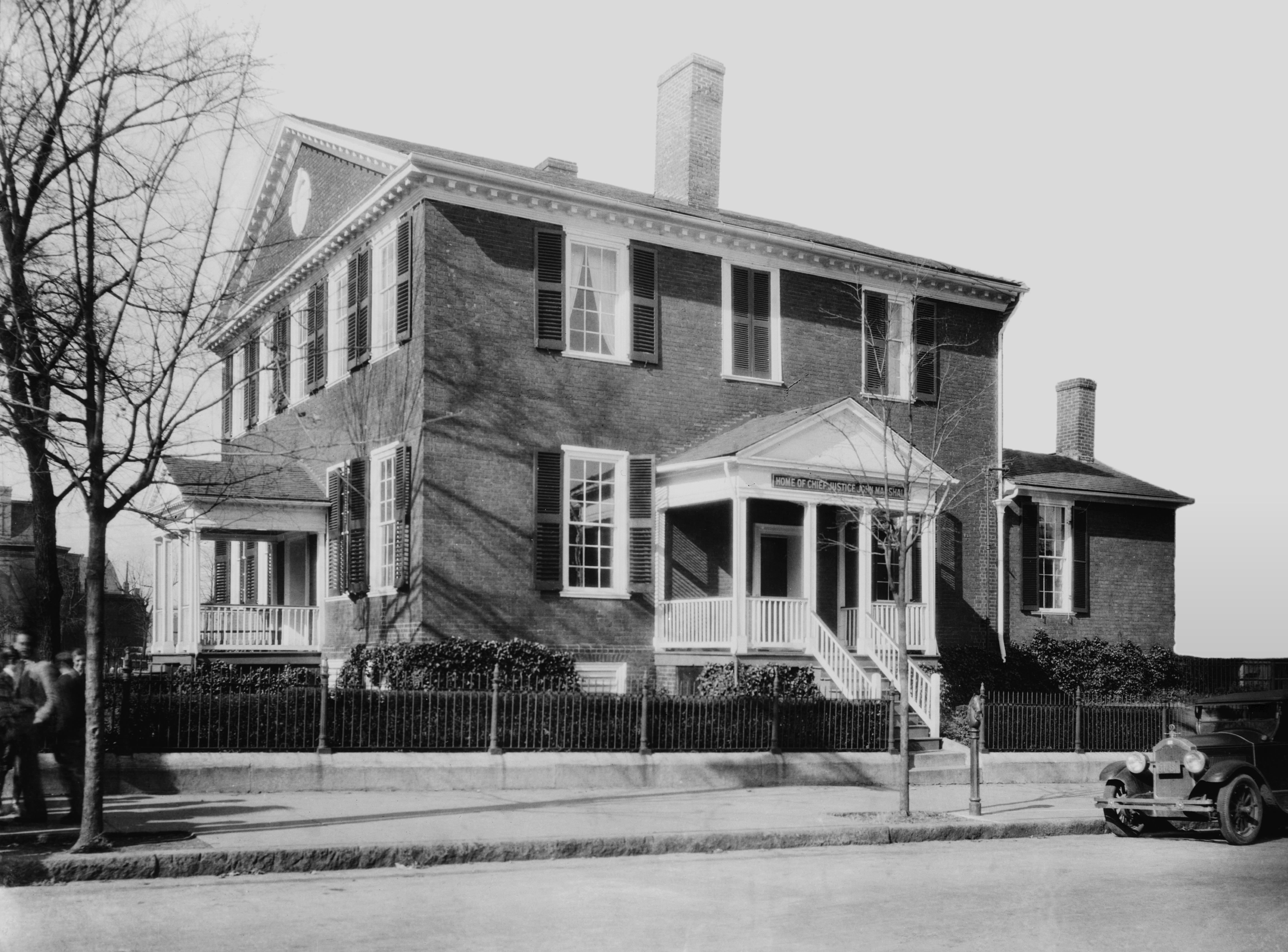 John Marshall House (Richmond, Virginia) (cropped)